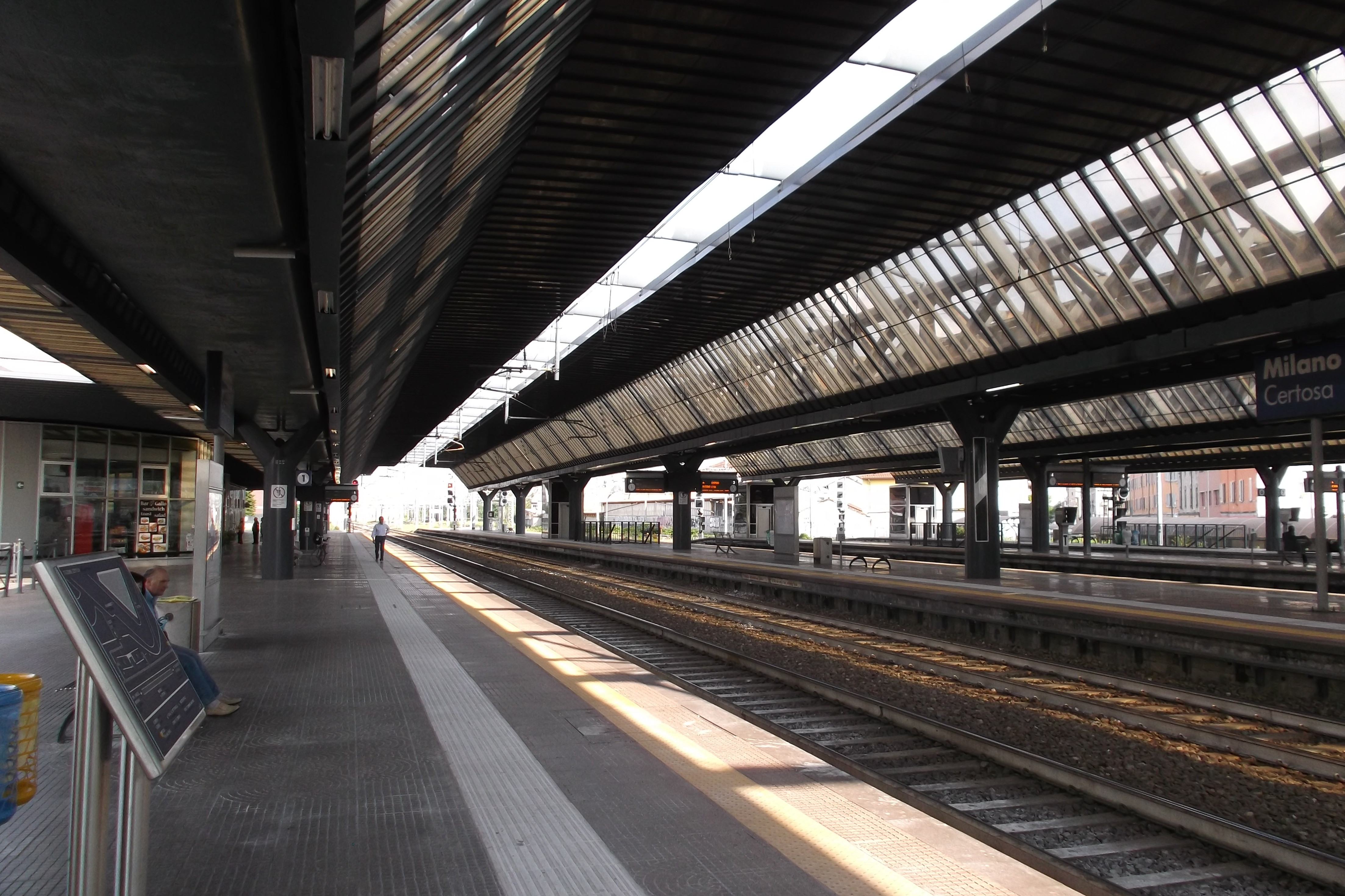 Milano Certosa railway station's platform